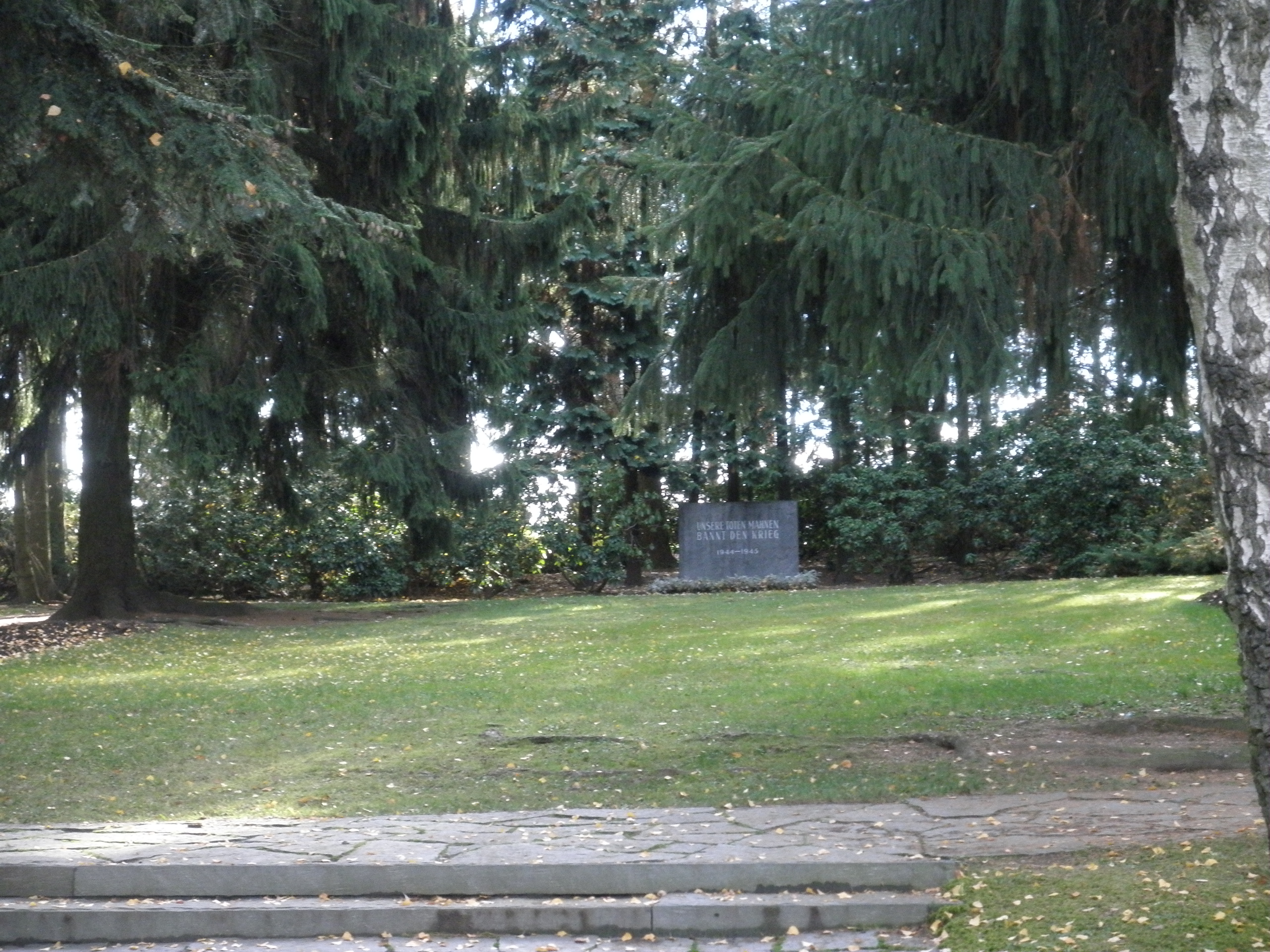 Bombing Victims 1944 and 1945 at Cemetery in Plauen in Saxony